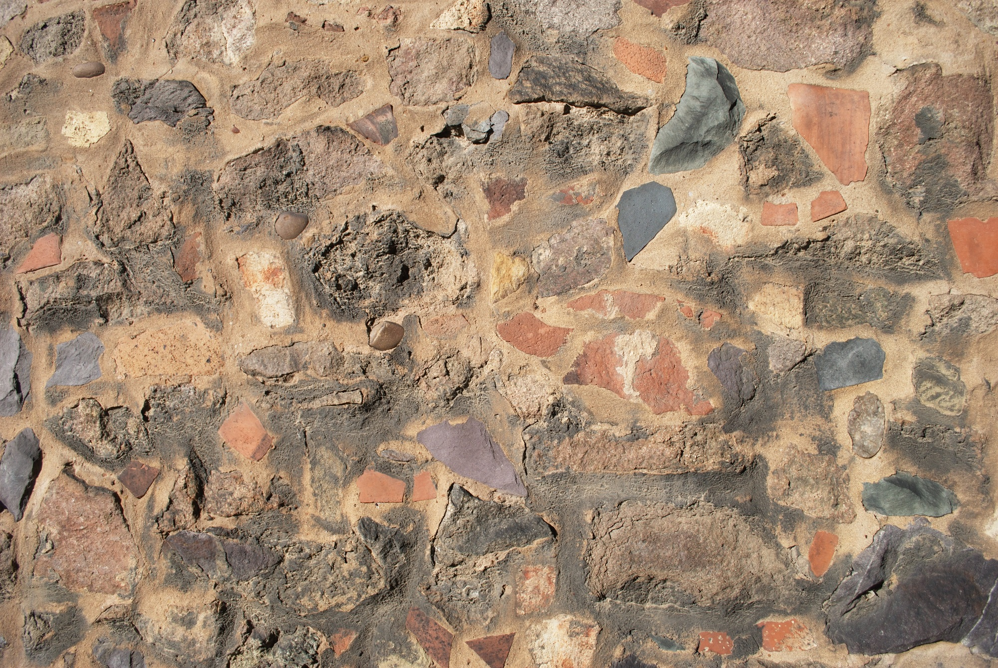 Wyggeston's Chantry House rubble work. This image was taken to the left of the white drainpipe (as shown on the alternative version below)